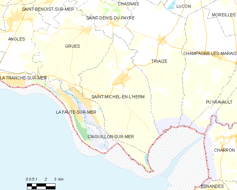 Map of French municipality Saint-Michel-en-l'Herm